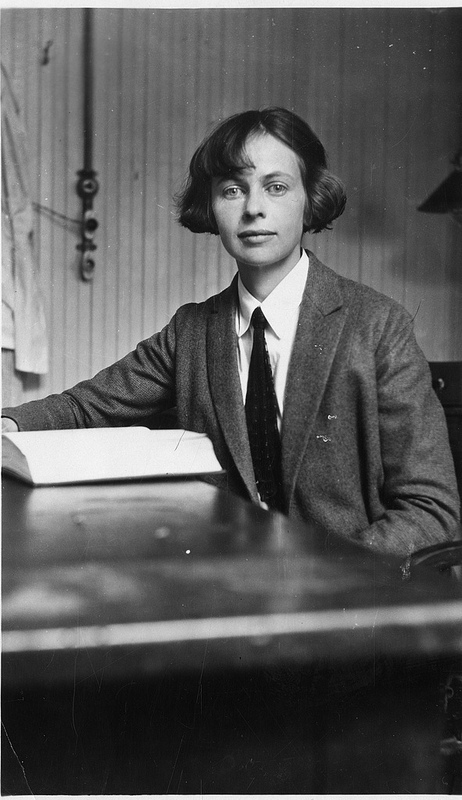 Biologist Gertrude Van Wagenen, seated at a desk, wearing a necktie, book open in front of her. Biologist Gertrude Van Wagenen (1893-1978) served on the faculty at Yale and did pioneering studies of rhesus monkeys